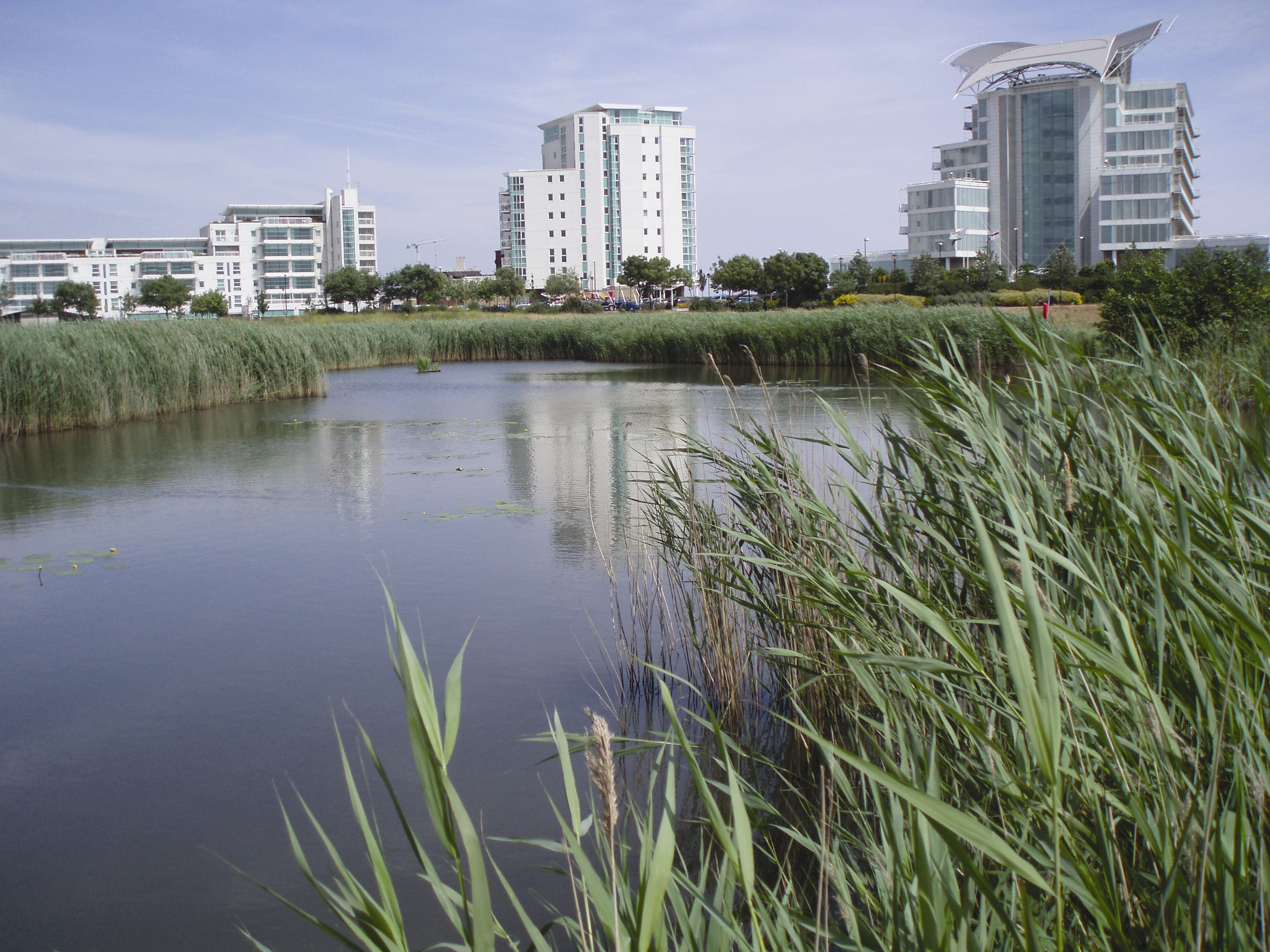 Cardiff Bay Wetlands Reserve showing St Davids Hotel